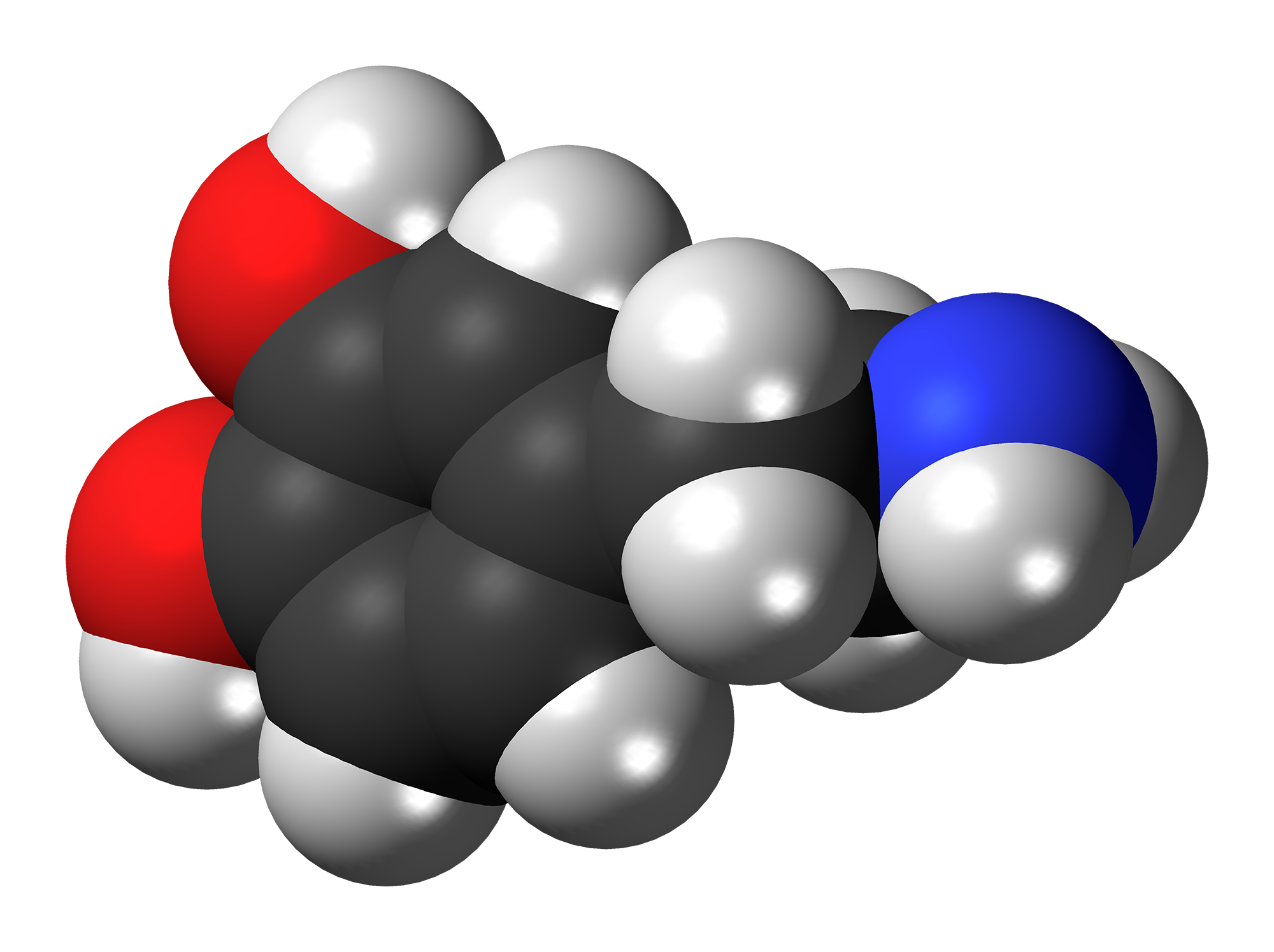 Space-filling model of the dopamine molecule, a neurotransmitter that affects the brain's reward and pleasure centers. Colour code: Carbon, C: black Hydrogen, H: white Oxygen, O: red Nitrogen, N: blue